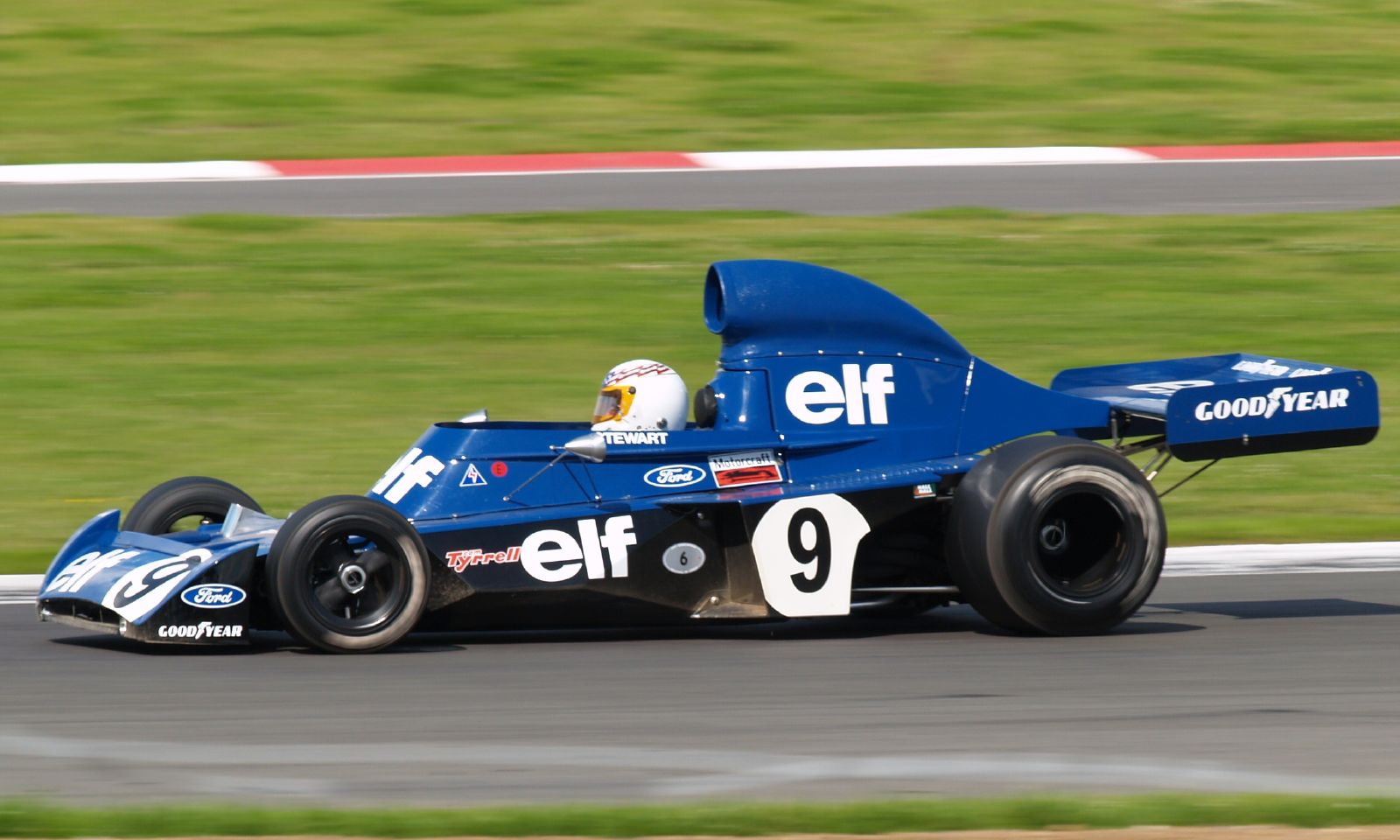 A Tyrrell 006 being raced at Silverstone, July 2007.